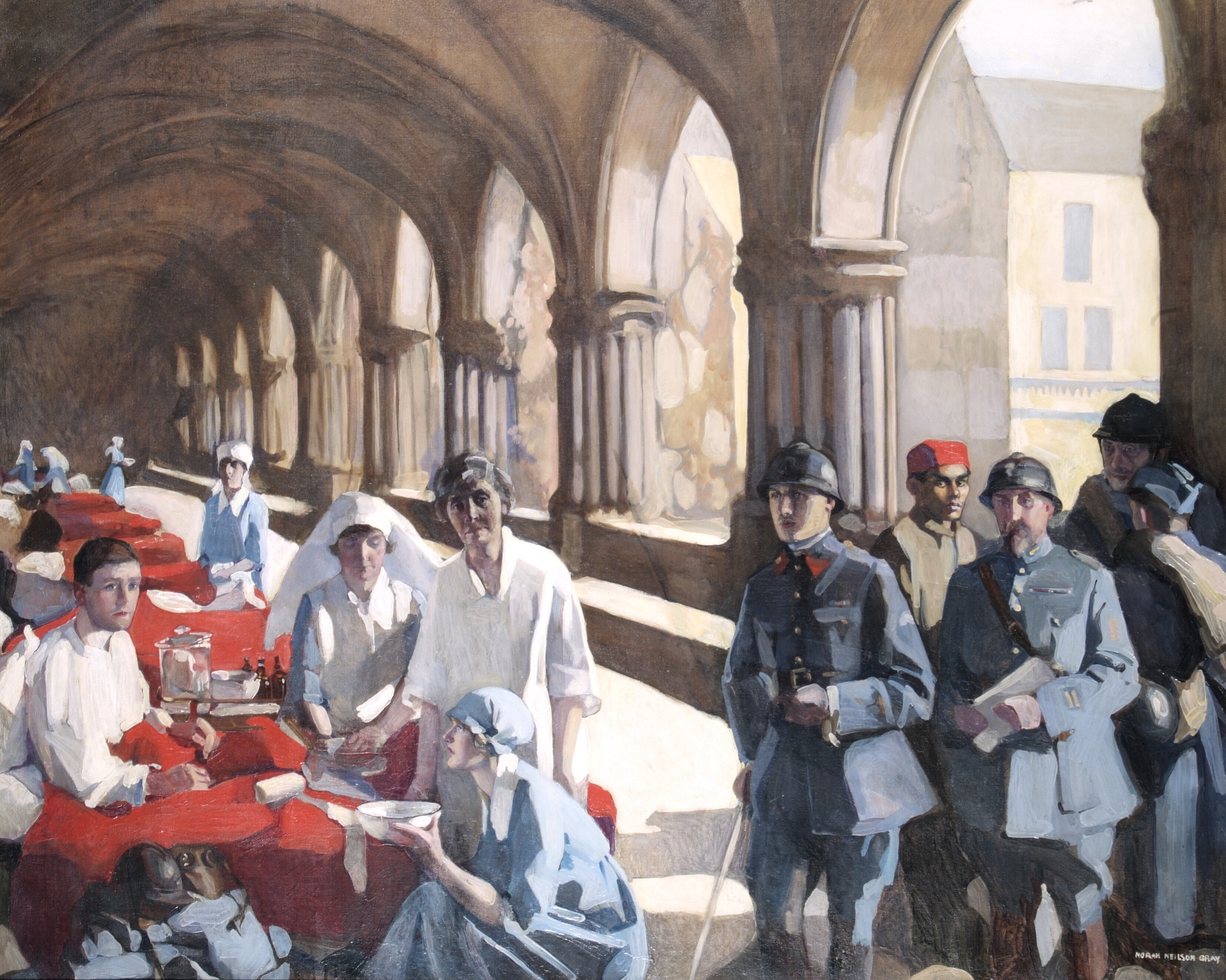 The Scottish Women's Hospital - in the Cloister of the Abbaye at Royaumont. Dr. Frances Ivens inspecting a French patient. image: A view along the cloister of an abbey, in which there is a row of beds filled with patients on the left. In the left foreground three nurses tend to a male patient, who sits up in bed. Two French officers in horizon blue uniforms stand in the right foreground, with two French soldiers and a man wearing a Fez-style hat standing behind them.